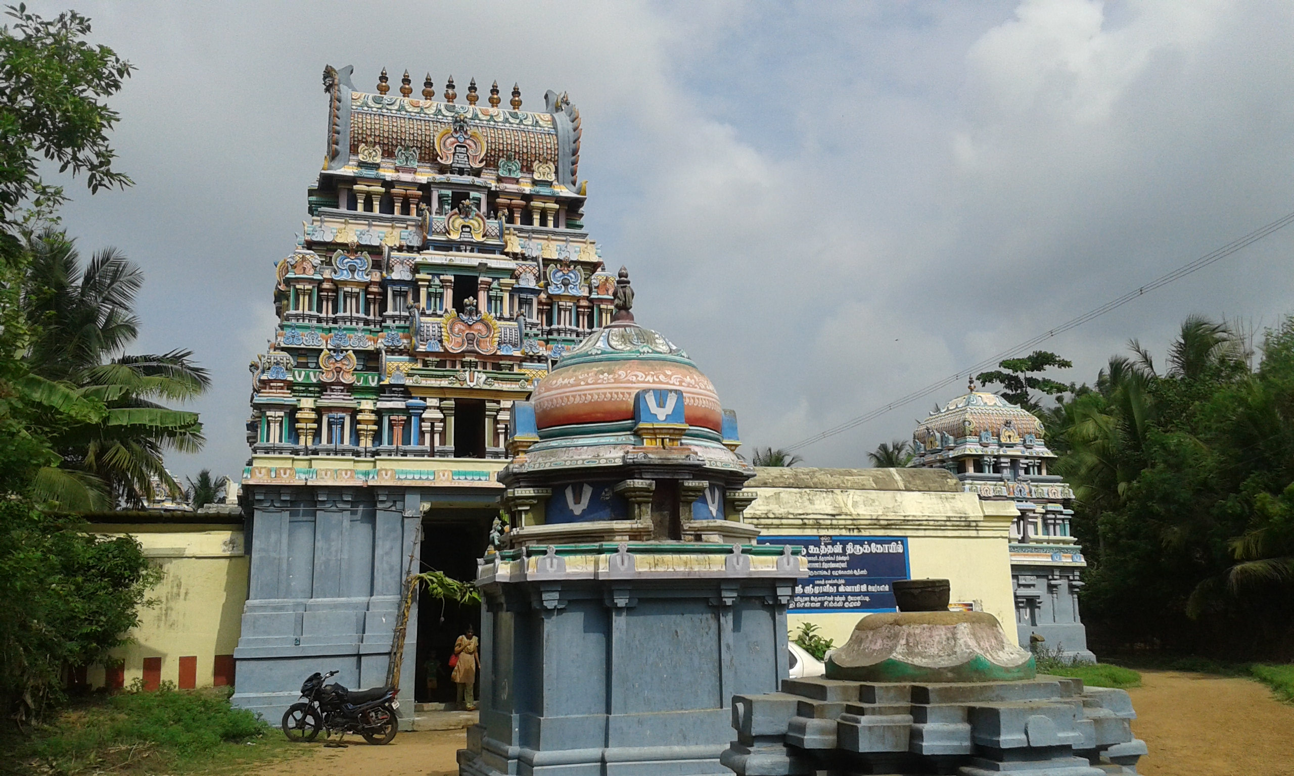 Arimeya Vinnagaram - Kuamadukoothan